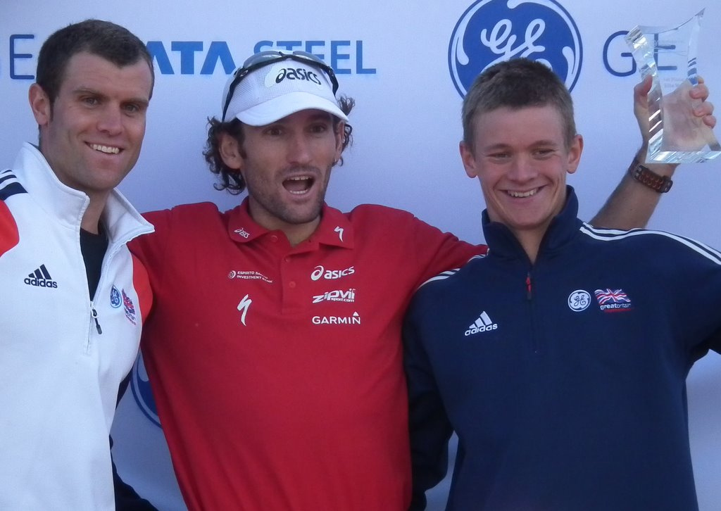 Adam Bowden, Tim Don and Matt Sharp make up the podium.